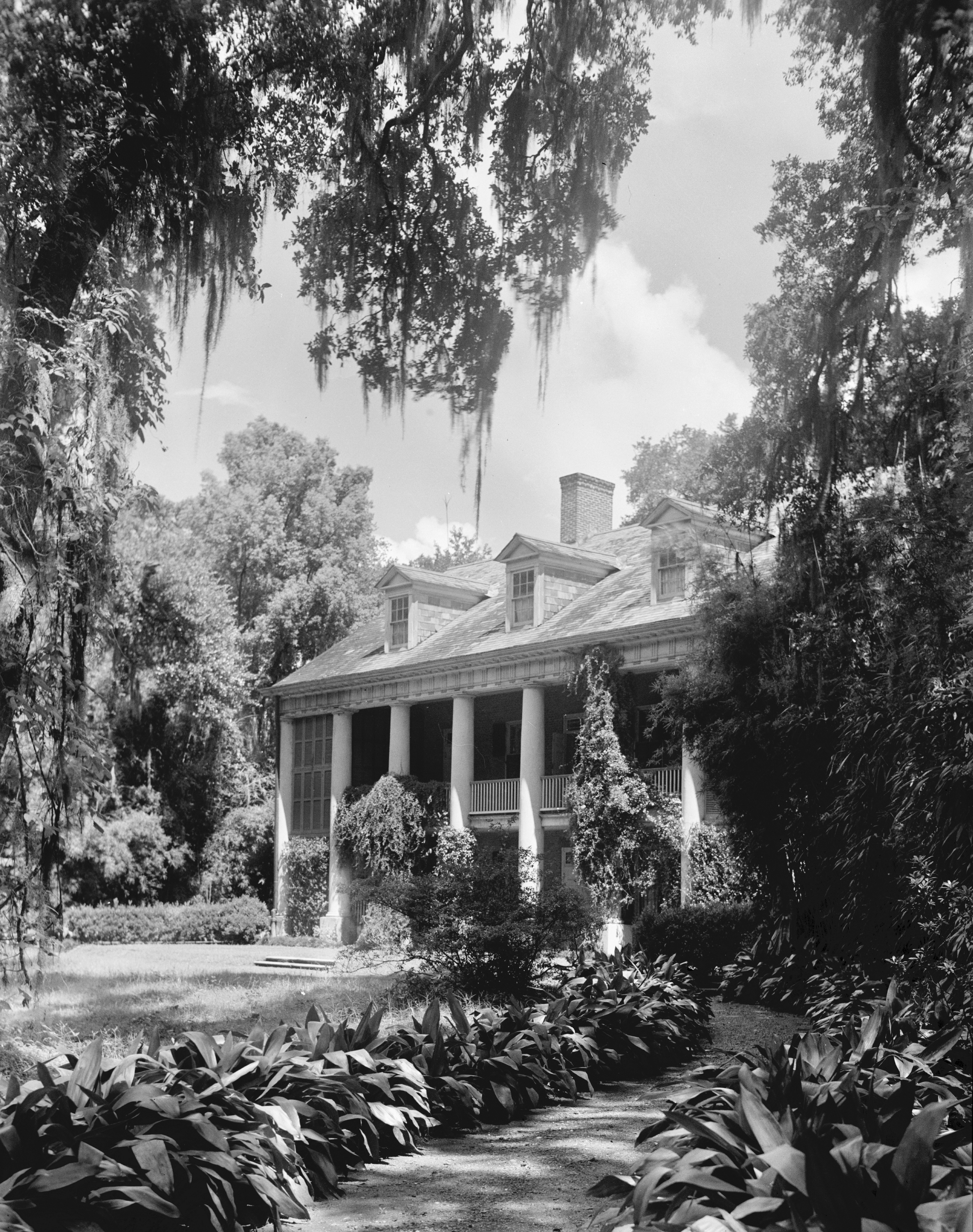 Shadows on the Teche — Main & Weeks Streets, New Iberia (Iberia Parish, Louisiana) (cropped)